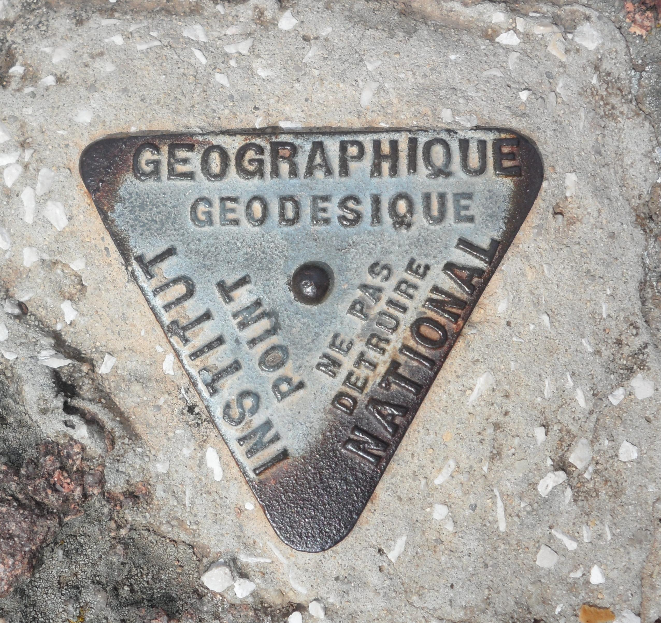 Geodetic control points of the French Institut géographique national on mount Rocher de Roquebrune close to the tree crosses near Roquebrune-sur-Argens in France